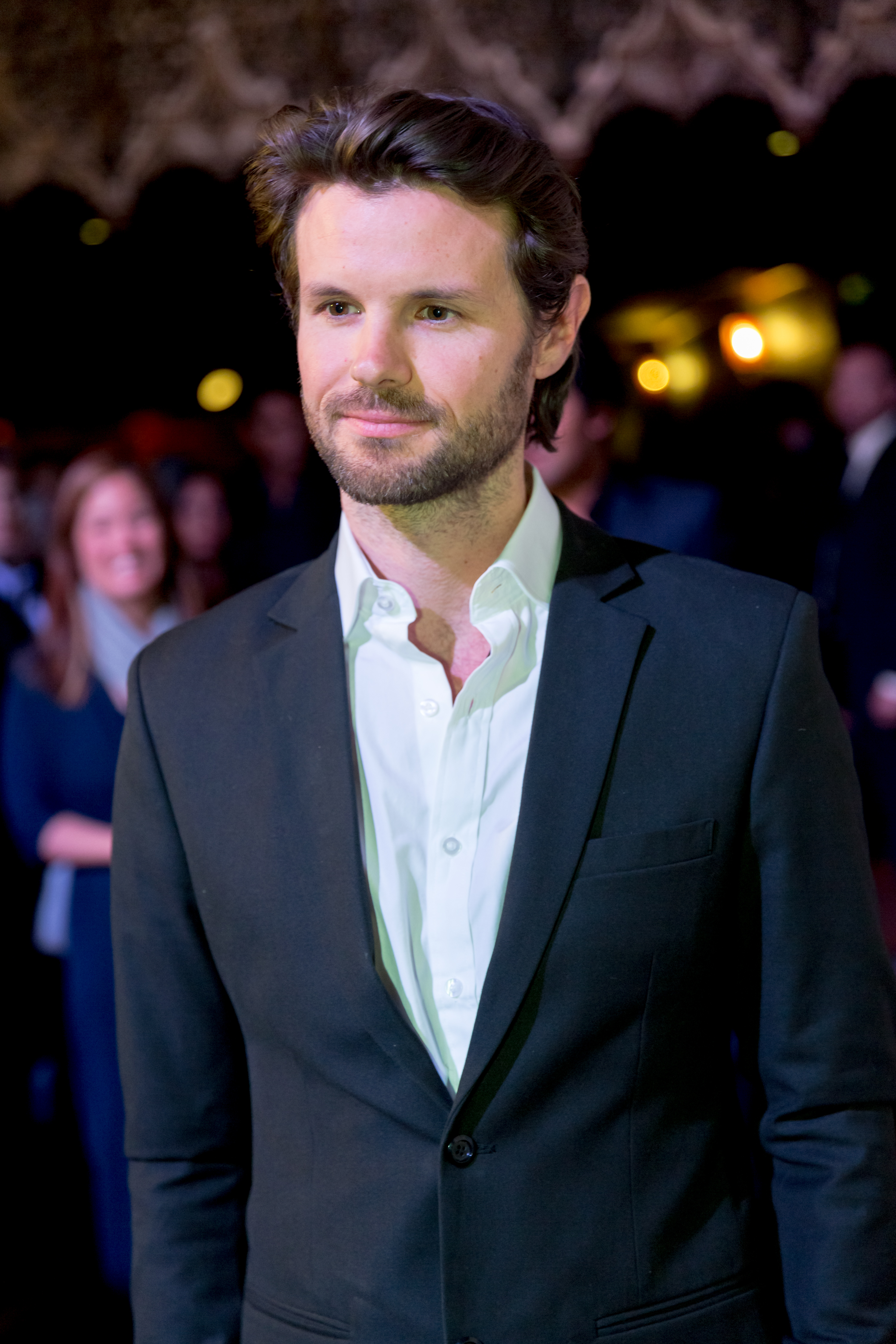 James Napier Robertson at premiere of The Dark Horse